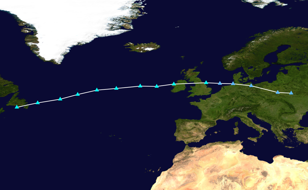 Track map of Storm Ines of the 2019-20 European windstorm season. The points show the location of the storm at 6-hour intervals. The colour represents the storm's maximum sustained wind speeds as classified in the Saffir–Simpson scale (see below), and the shape of the data points represent the nature of the storm, according to the legend below. Saffir–Simpson scale Tropical depression≤38 mph≤62 km/h Category 3111–129 mph178–208 km/h Tropical storm39–73 mph63–118 km/h Category 4130–156 mph209–251 km/h Category 174–95 mph119–153 km/h Category 5≥157 mph≥252 km/h Category 296–110 mph154–177 km/h Unknown Storm type Tropical cyclone Subtropical cyclone Extratropical cyclone / Remnant low / Tropical disturbance / Monsoon depression